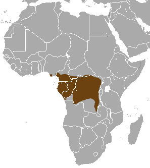 Long-nosed Mongoose (Herpestes naso) range